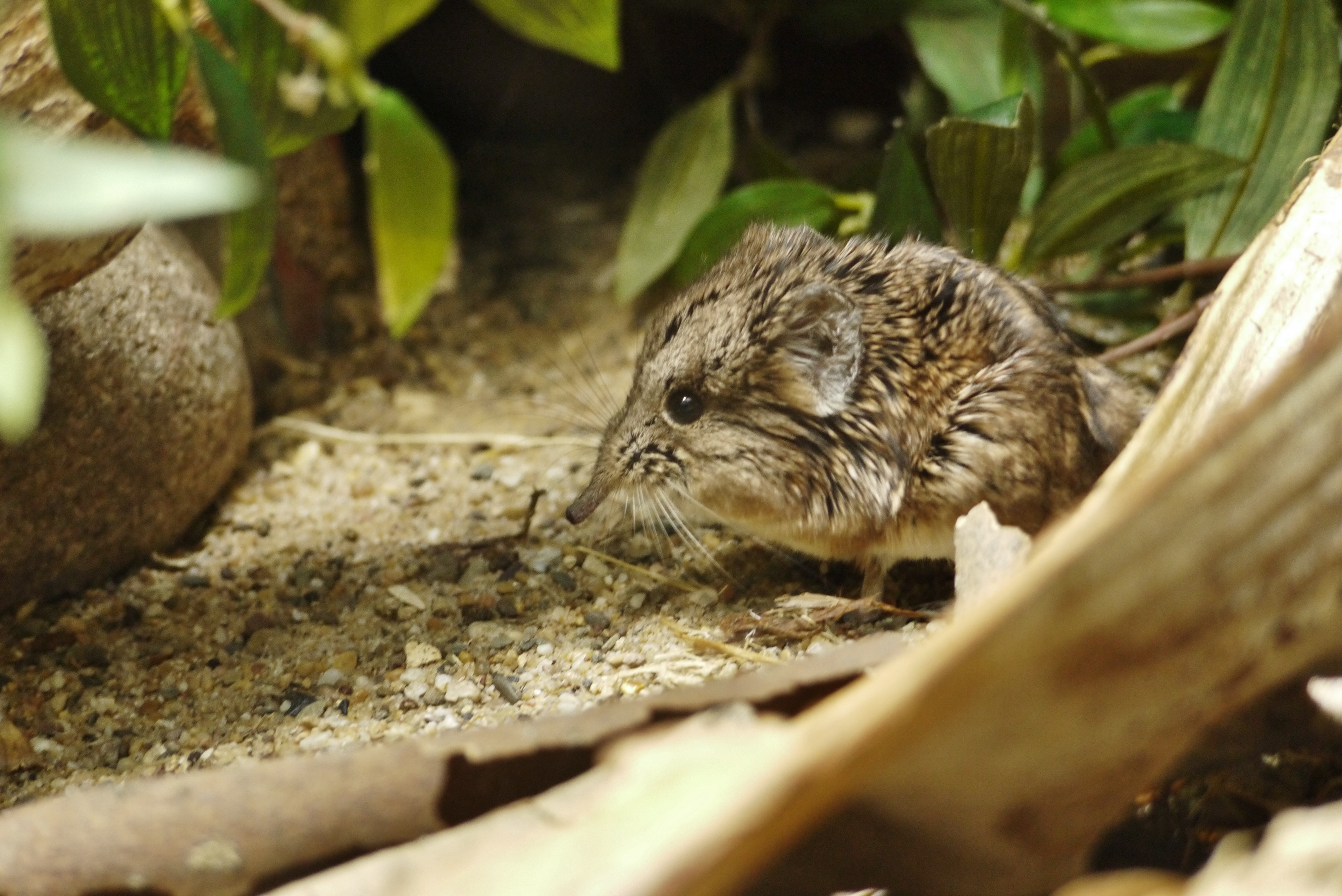 Short-eared elephant shrew